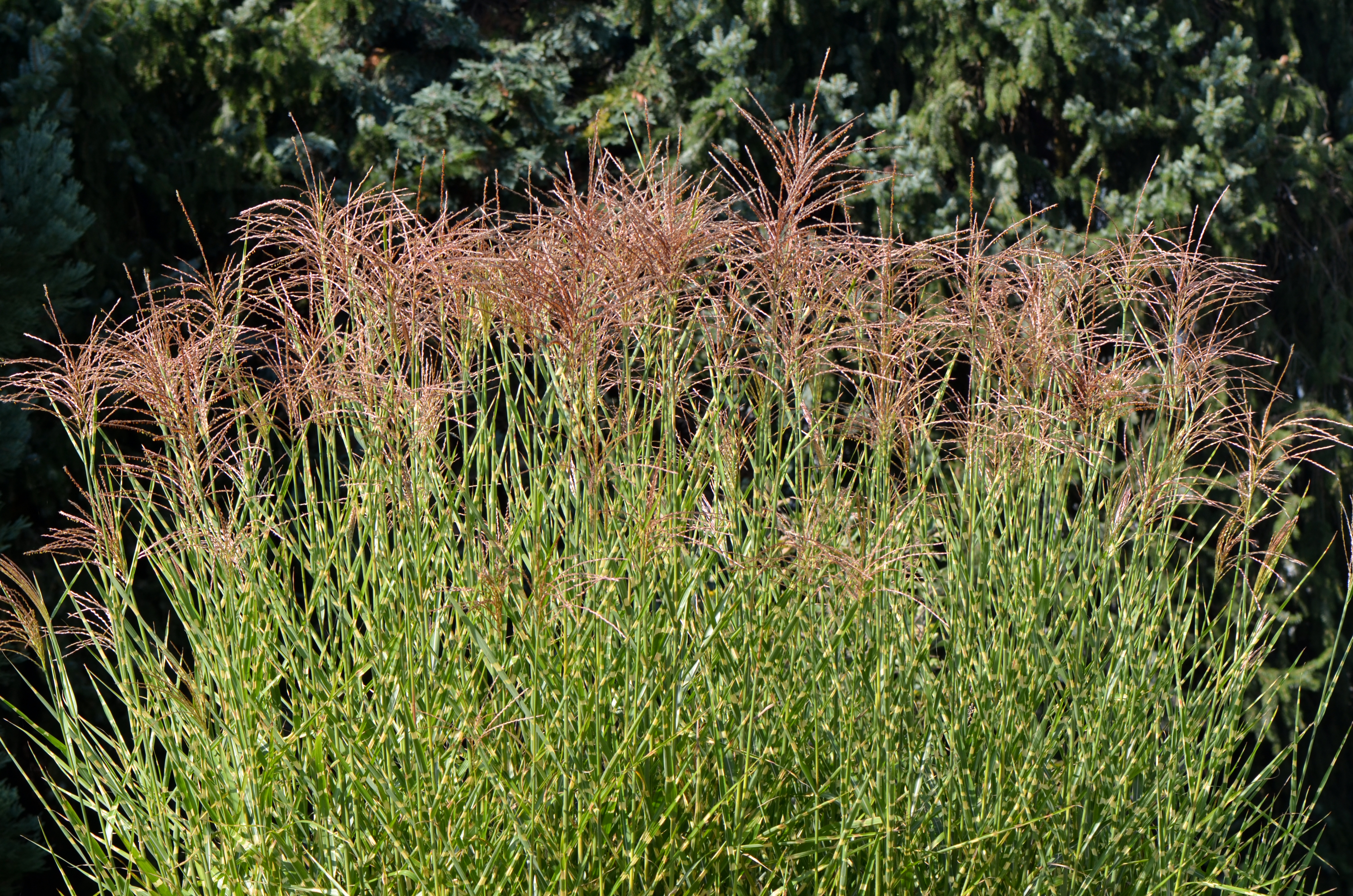 Miscanthus sinensis